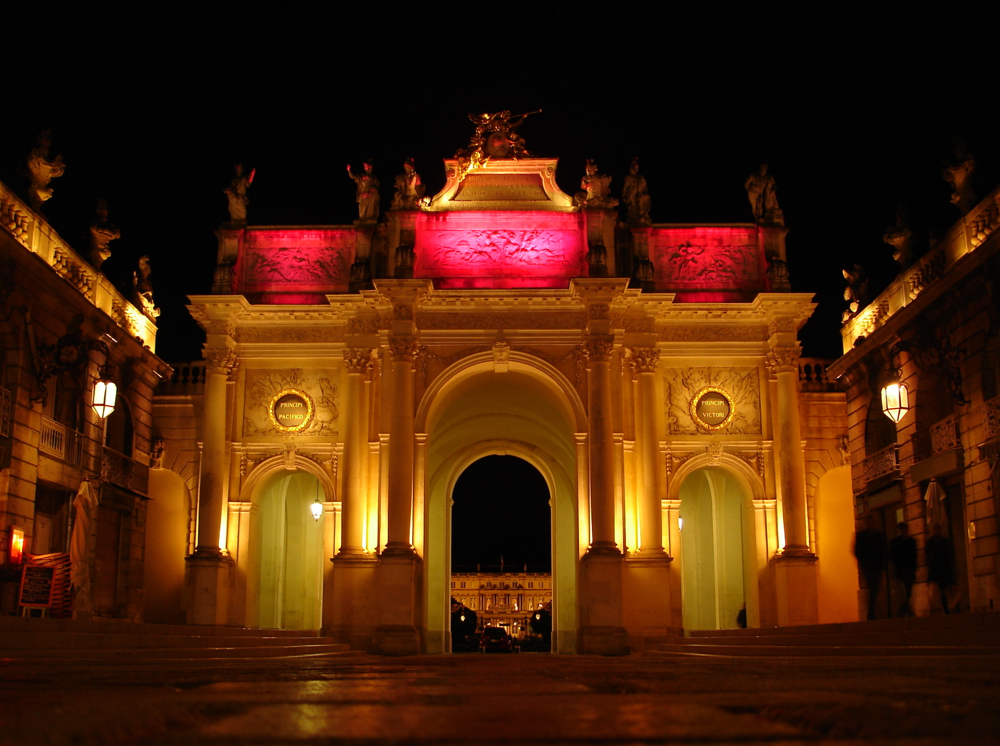 View of the Arc Héré at night.